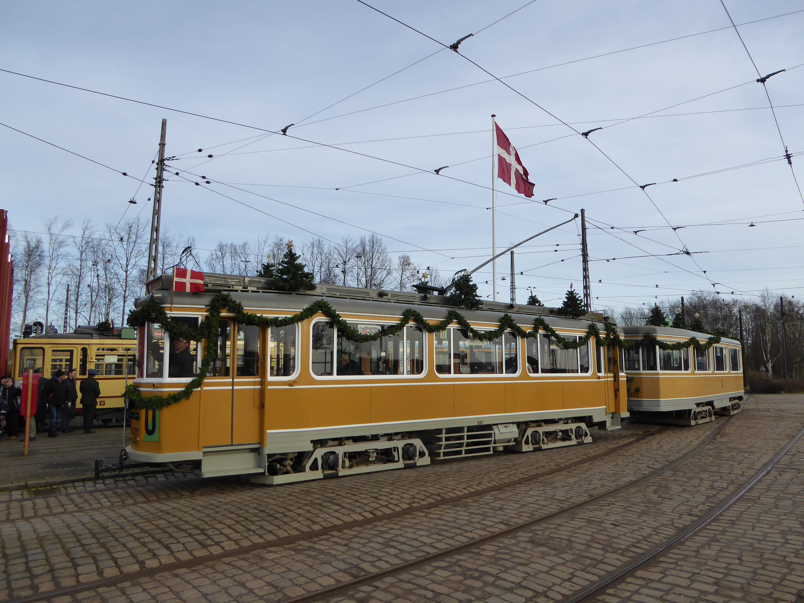 The tramway museum Sporvejsmuseet Skjoldenæsholm in Denmark open for Christmas. Old trams from Copenhagen, KS 587+1572 as Nullerten.